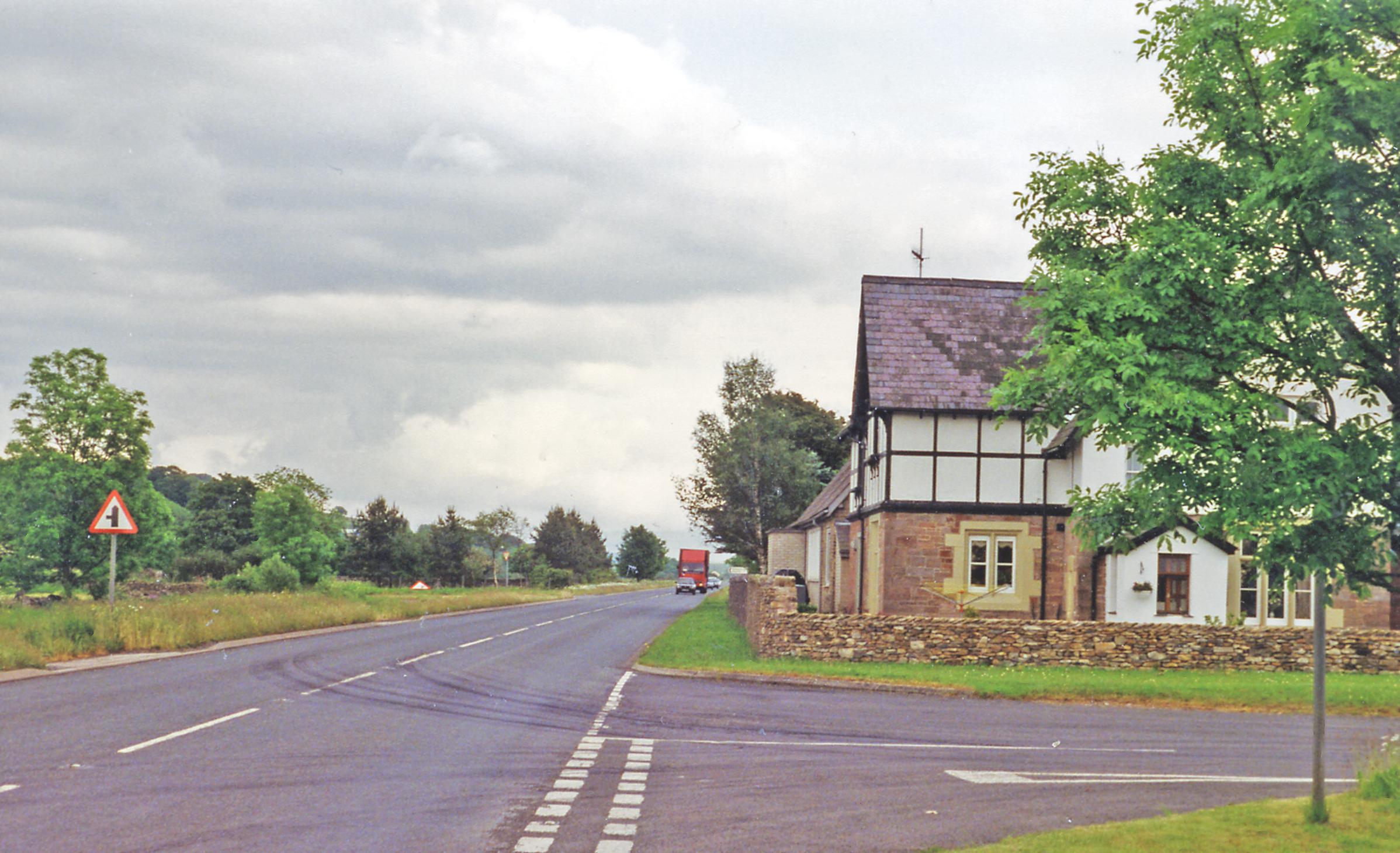 Site of Gaisgill station, 1996. View eastward on A , towards Kirkby Stephen and Darlington: ex-NER Tebay - Kirkby Stephen - Darlington line. The station, its former station house being on the right, had been closed 1/12/52 but the line survived for goods until 22/1/62: the A685 road has since been built over the track-bed.